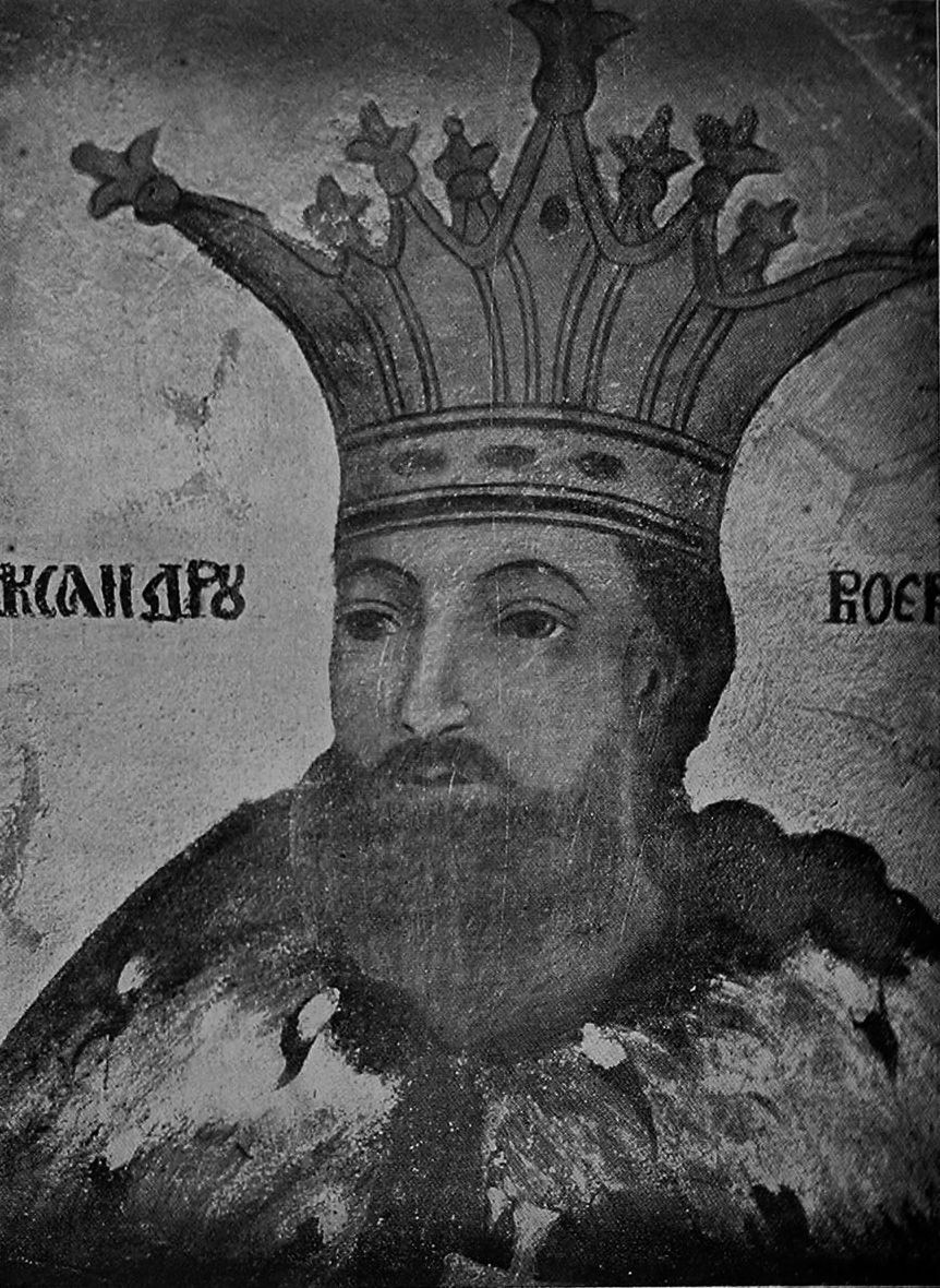 Nicolae Alexandru in a XIVth century fresco restored in 1820s.